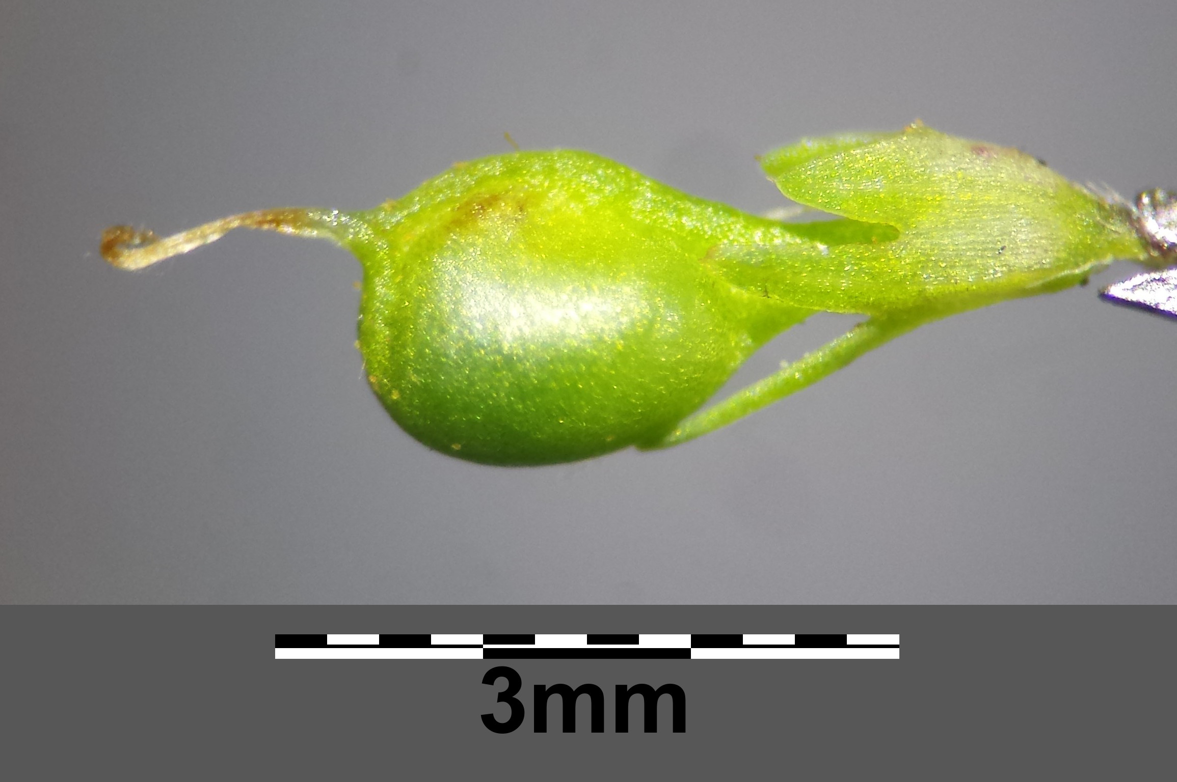 Ovary with stylus Taxonym: Trifolium aureum ss Fischer et al. EfÖLS 2008 ISBN 978-3-85474-187-9 Location: near Altmelon, district Zwettl, Lower Austria - ca. 900 m a.s.l. Habitat: border of a wood